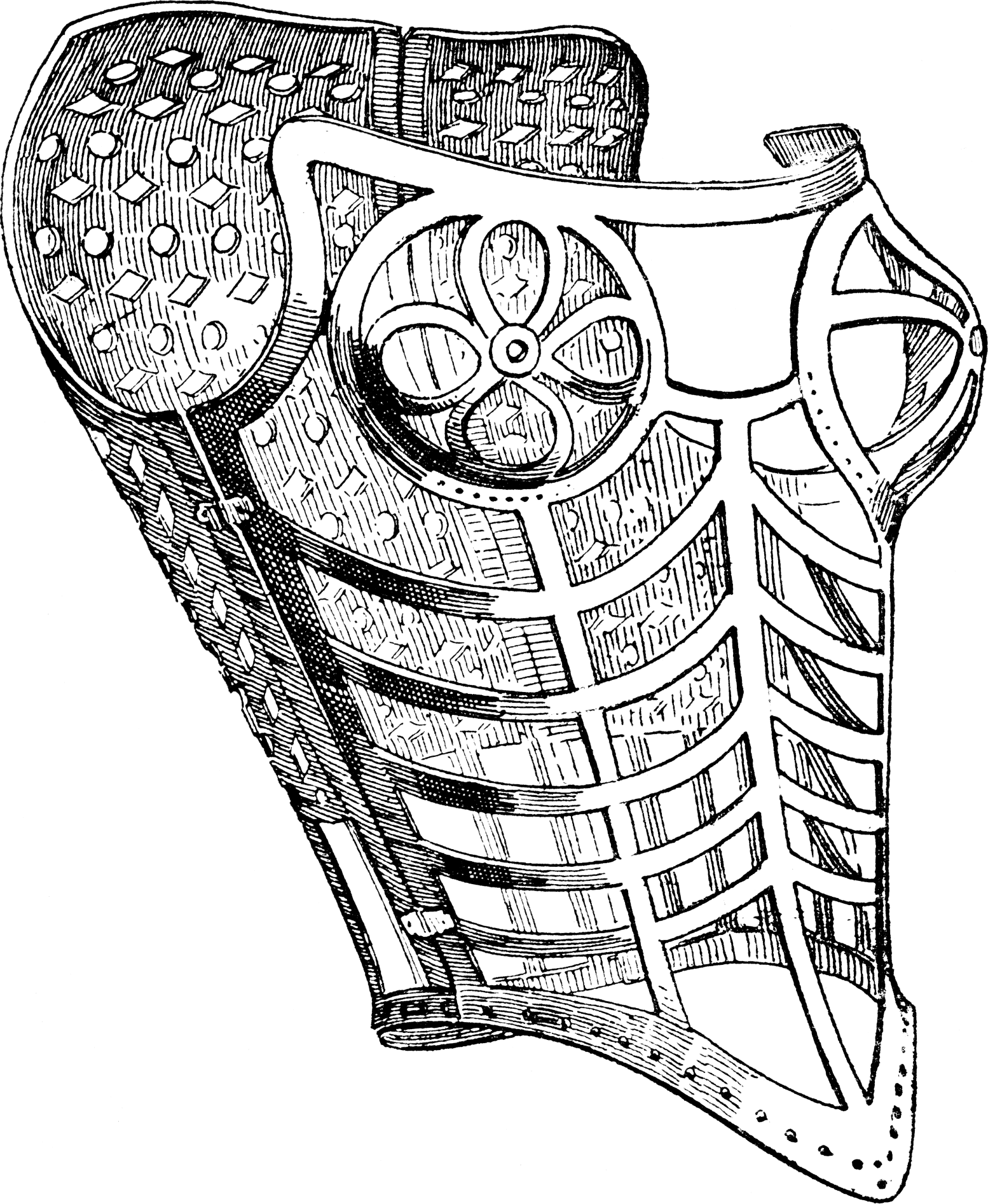 Sixteenth century iron corset